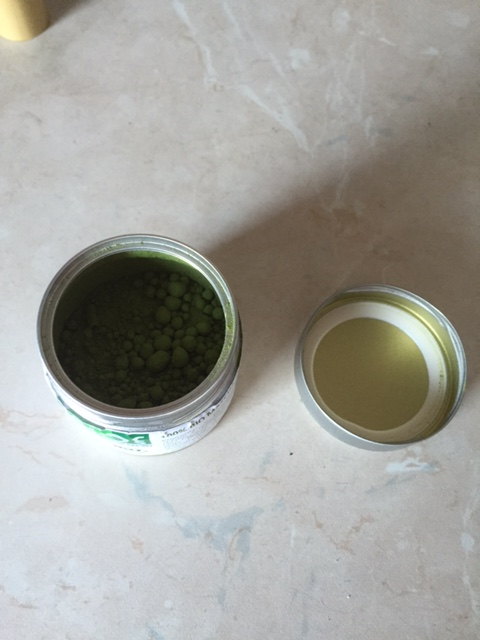 Зелени чај- Matcha